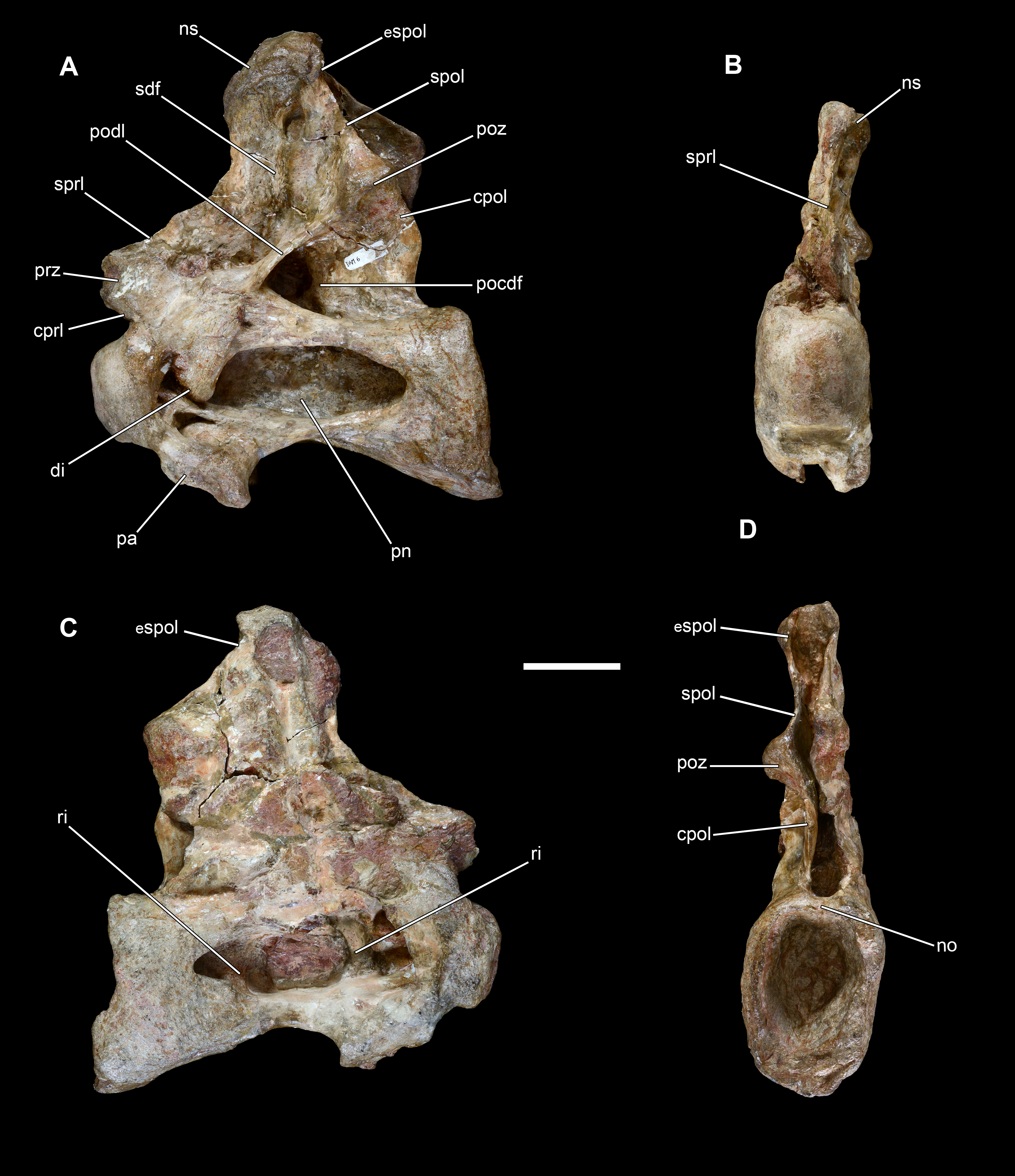 Middle cervical vertebra of Vouivria damparisensis (MNHN.F.1934.6 DAM 6). (A) Left lateral view, (B) anterior view, (C) right lateral view; (D) posterior view. Abbreviations: cpol, centropostzygapophyseal lamina; di, diapophysis; cprl, centroprezygapophyseal lamina; espol, expanded spinopostzygapophyseal lamina; no, notch; ns, notch; pa, parapophysis; pn, pneumatic foramen; pocdf, postzygapophyseal centrodiapophyseal fossa; podl, postzygodiapophyseal lamina; poz, postzygapophysis; prz, prezygapophysis; ri, ridge; sdf, spinodiapophyseal fossa; spol, spinopostzygapophyseal lamina; sprl, spinoprezygapophyseal lamina. Scale bar equals 10 cm.